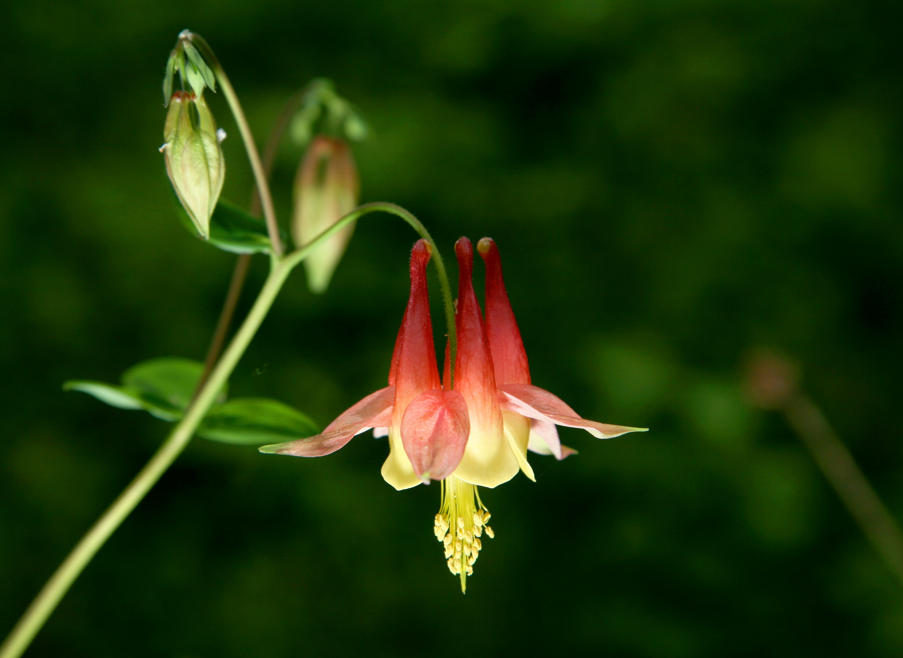 A specimen of Aquilegia formosa in Illinois, USA.